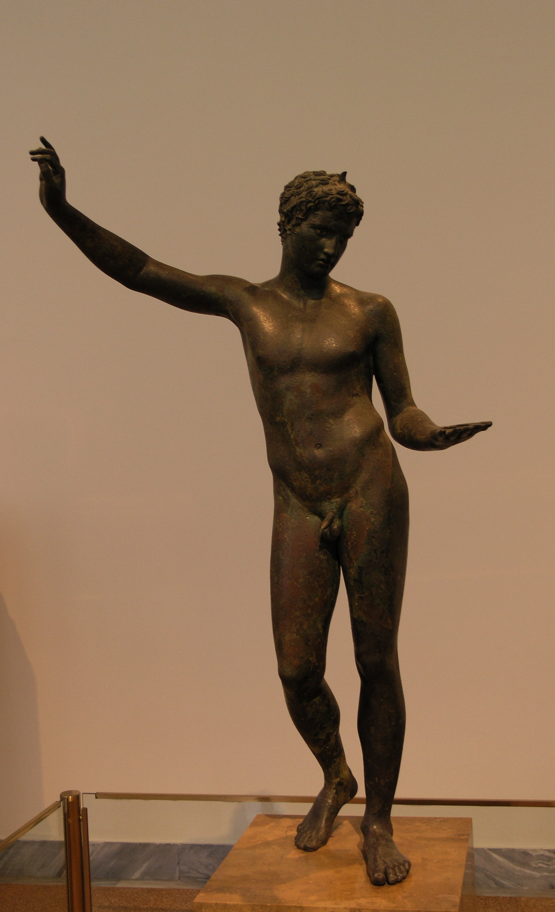 Marathon Youth or Ephebe of Marathon. Bronze statue of a young athlete, found in the sea near Marathon (Attic coast). The left hand was replaced at a later date by another shaped as a lamp. Work of the Praxiteles school, ca. 340-330 B.C.